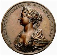 Medallion depicting Polyxena of Hesse-Rotenburg (1706-1735), wife of Charles Emmanuel III of Sardinia